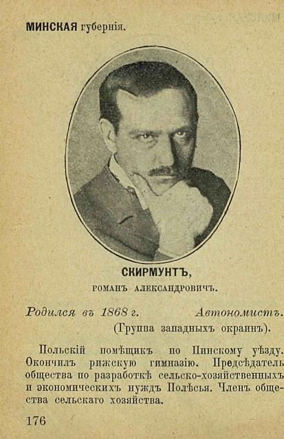 Roman Skirmunt (1868—1939), a deputy (1906) of the First Russian State Duma, 1906 AD (Russian empire)